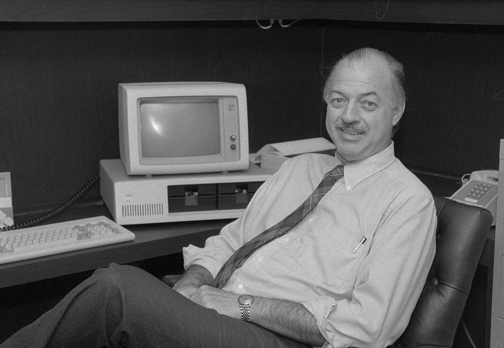 Ninth Secretary Robert McCormick Adams, in his office sitting by his computer, leaves behind a legacy of cultural diversity at the Smithsonian. As leader of the Smithsonian from September 1984 to September 1994, Secretary Adams placed an emphasis on cultural and biological diversity, research, enhancing the quality of the institution's exhibitions and activities, and the expansion of the Smithsonian's educational programs.